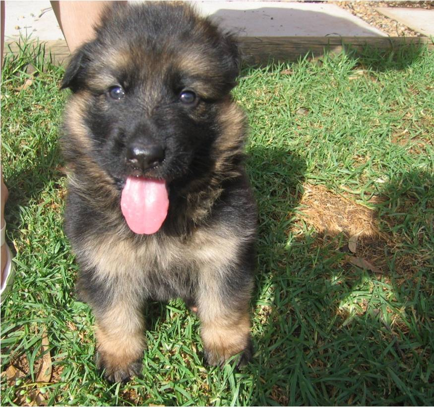 5 week old German Shepherd puppy.